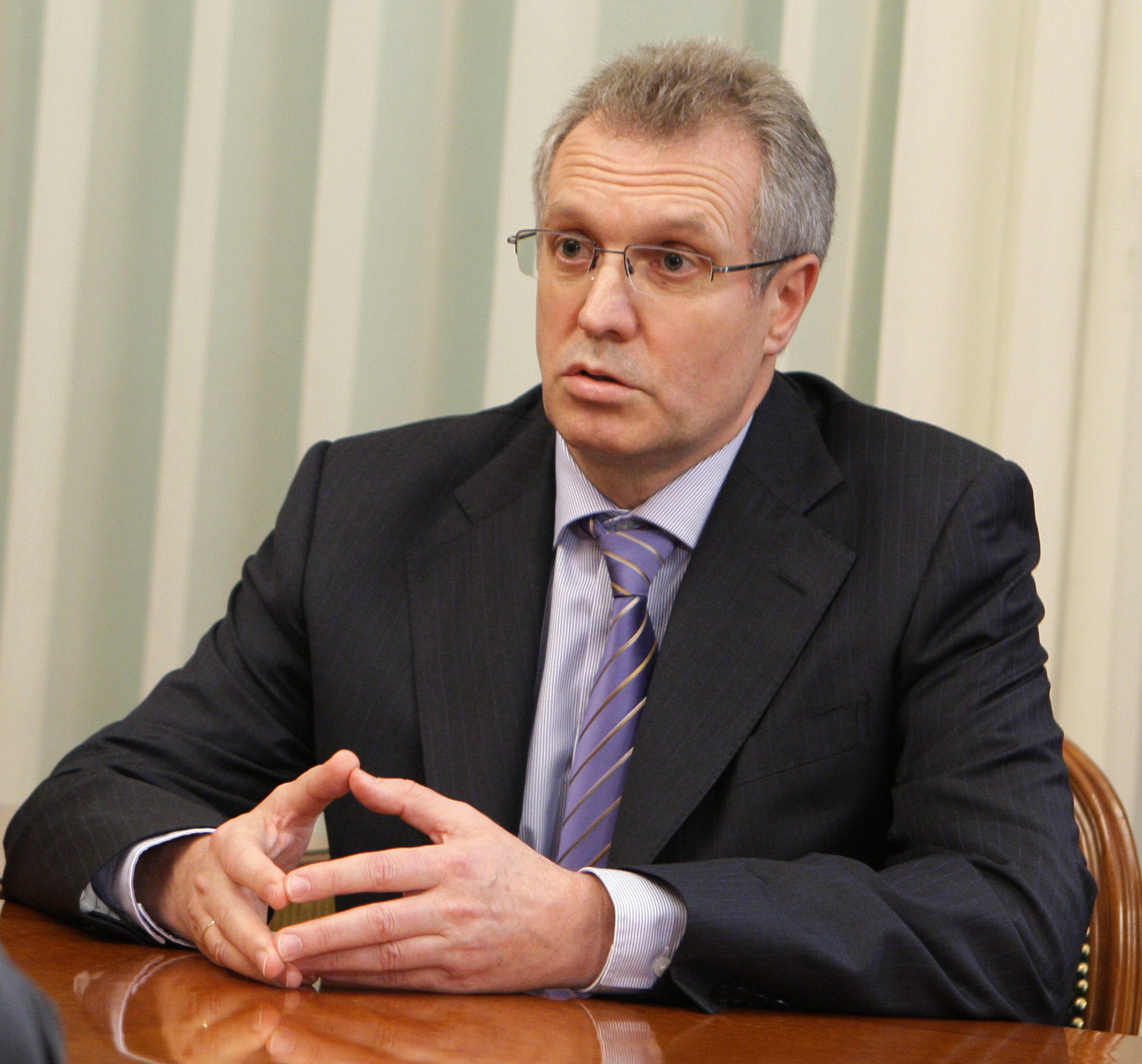 Director General of Rosagroleasing Valery Nazarov during a working meeting with Russian Prime Minister Vladimir Putin at the Government House of the Russian Federation.